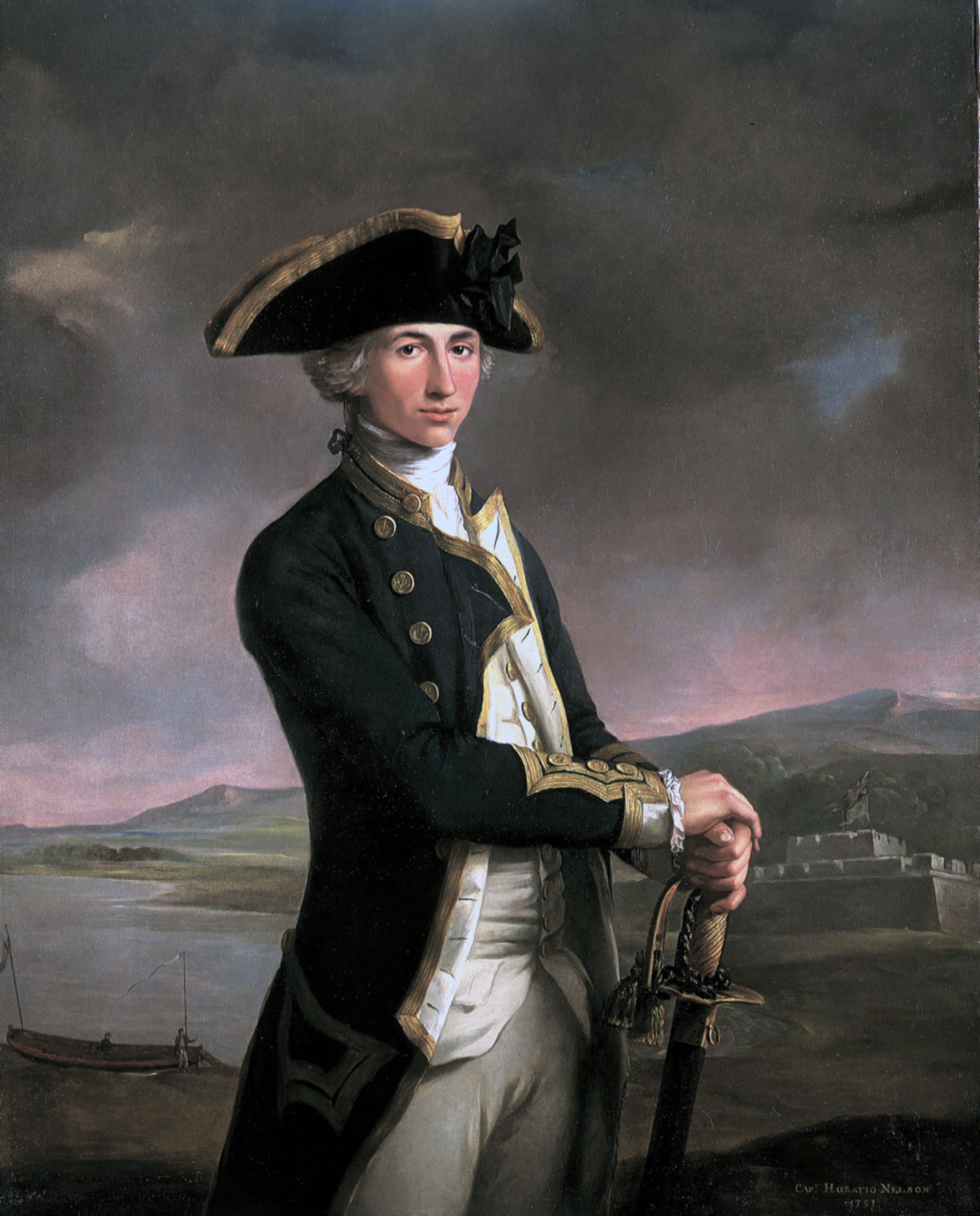 Captain Horatio Nelson painted byJohn Francis Rigaud, with Fort San Juan—the scene of his most notable achievement to date—in the background. Caption information from John Sugden's Nelson: A Dream of Glory, p. 464.